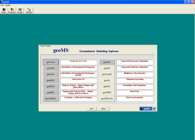 Interface for free geostatistics software geoms.